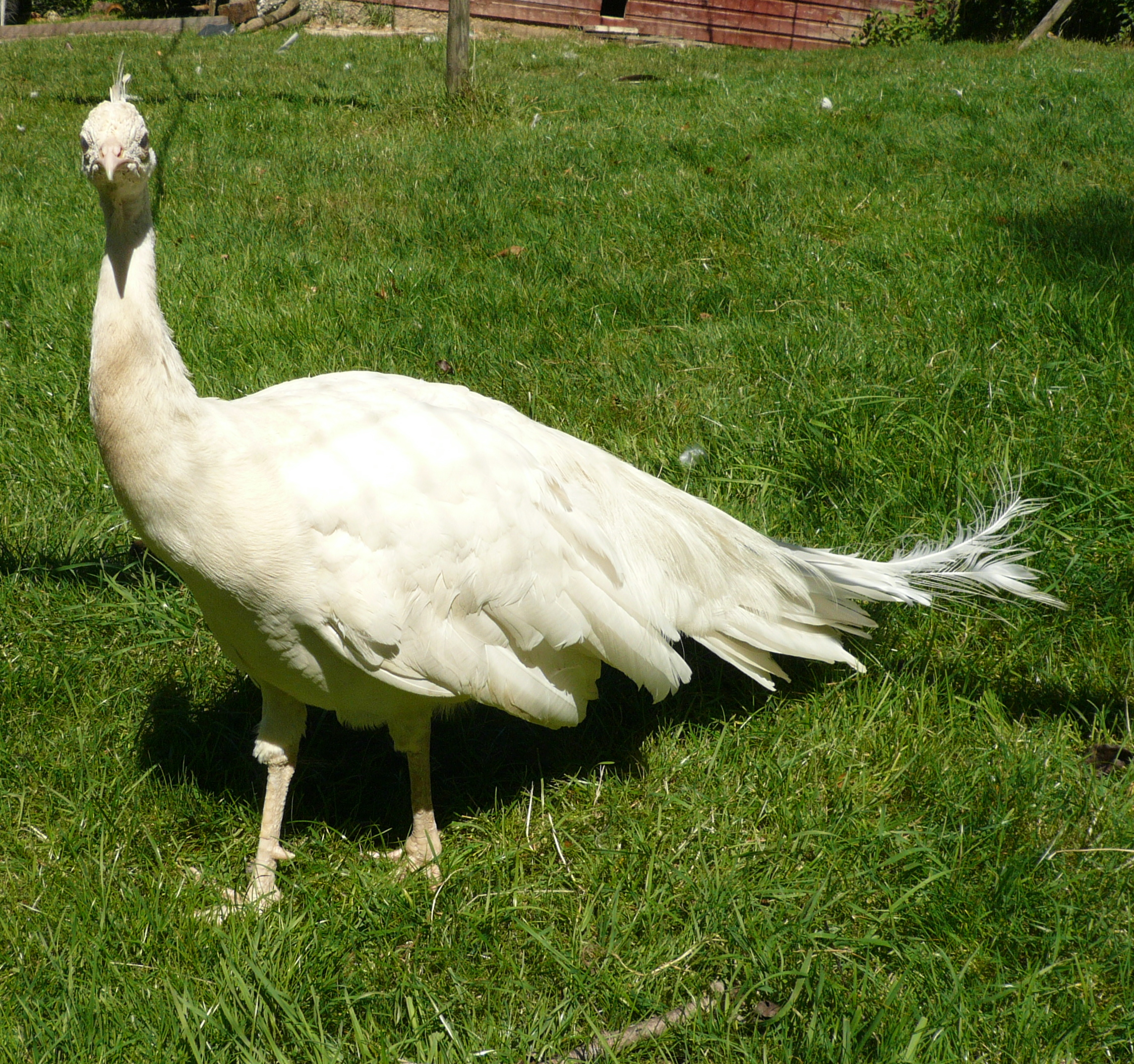 Albino of Pavo